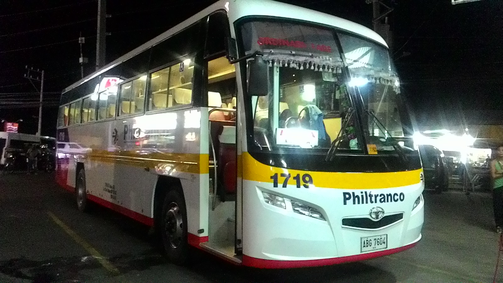 A Philtranco bus heading to Buhi.